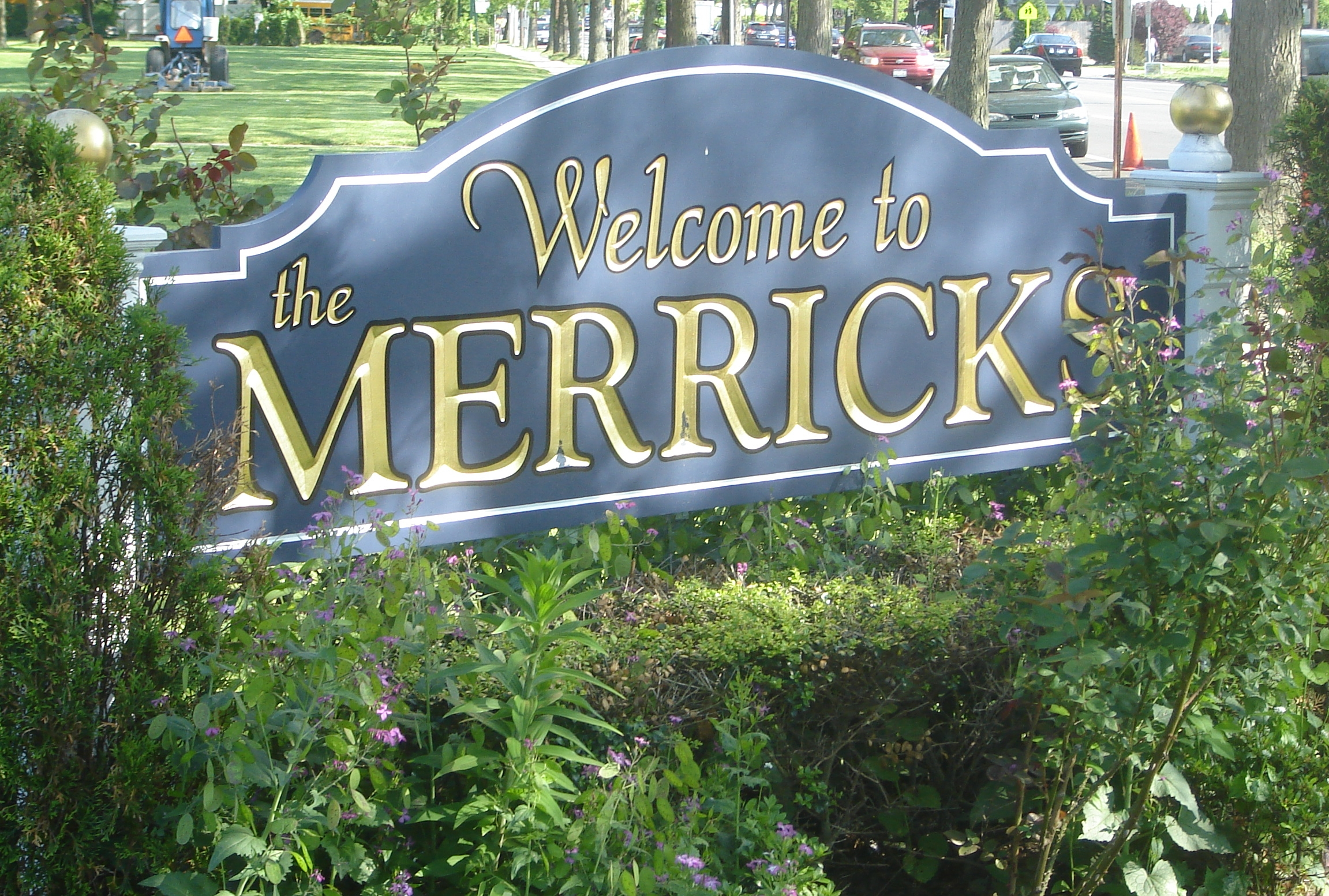 Welcome to The Merricks Sign on Merrick Ave.